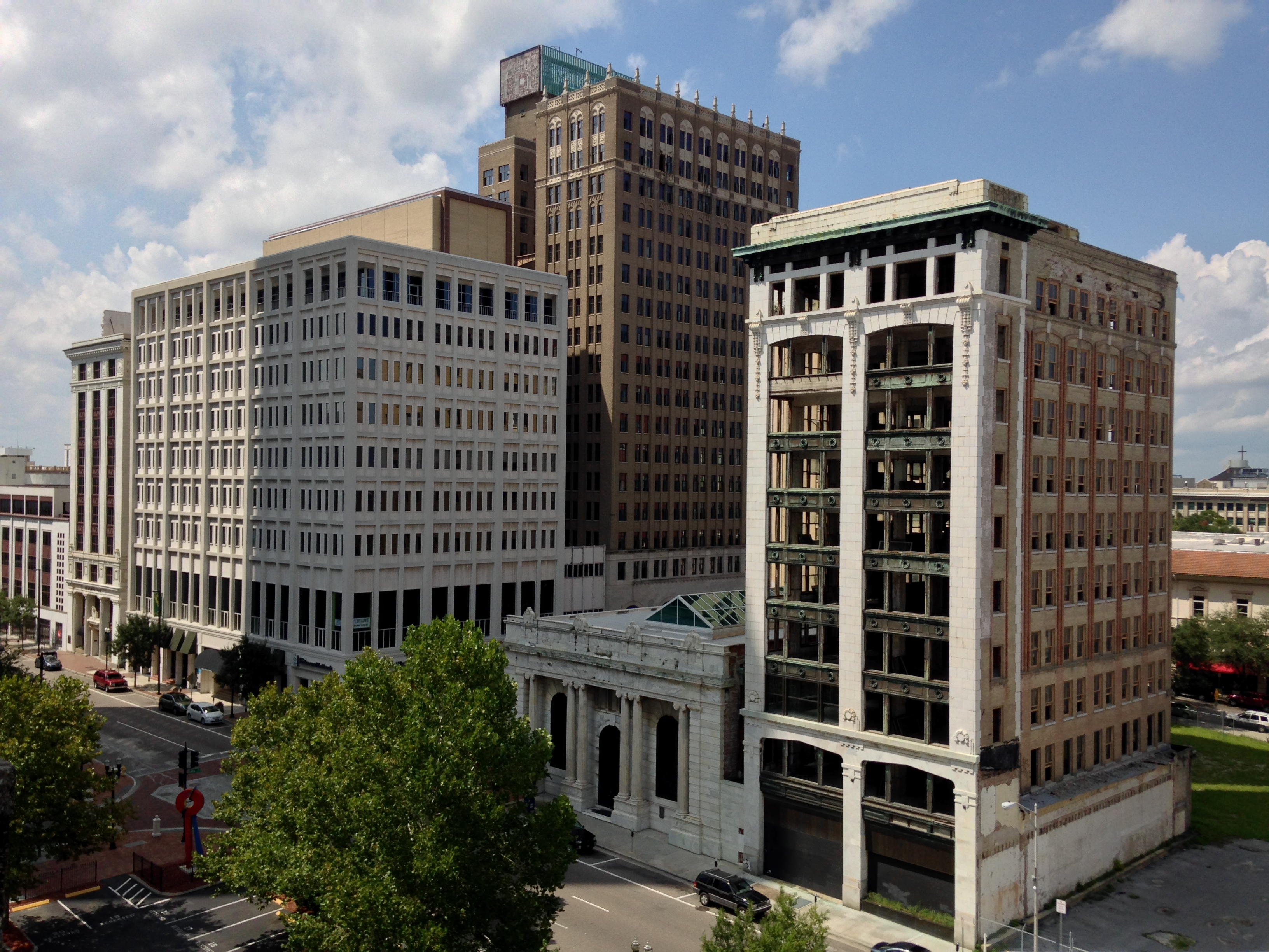 Corner of Laura and Forsyth Streets in Jacksonville, Florida